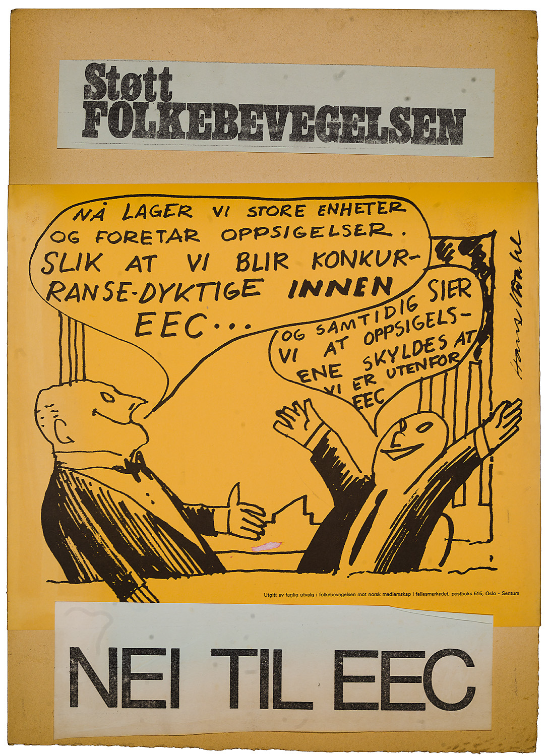 Image from National Archives of Norway's Flickr-Album "Protest" (all images marked with "No known copyright restrictions")